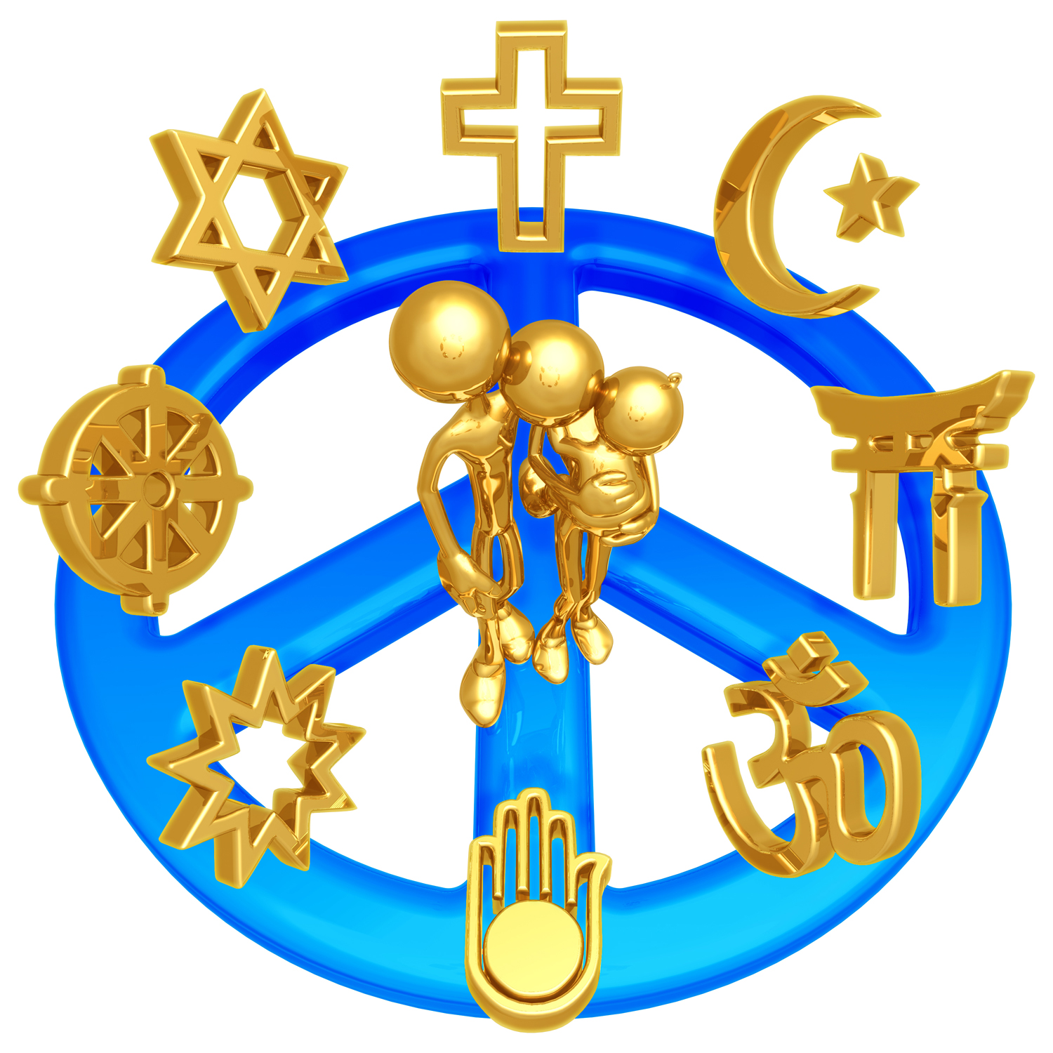 Linkware Freebie Image use it however you like all I ask is a credit link to : or